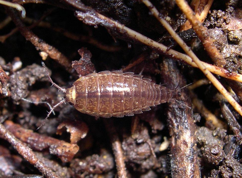 en: Ligidium japonicum Verhoeff, 1918 (Ligiidae:Oniscidea:Isopoda:Crustacea) is a common species of terrestrial isopod inhabits moist forests in Japan (Honshu, kyushu, Shikoku). They can be found in leaf litters, around fallen wood, under rocks, etc. Locality = Tako-machi, Chiba, Honshu, Japan. ja: ニホンヒメフナムシ Ligidium japonicum' Verhoeff, 1918（等脚目：ワラジムシ亜目：フナムシ科）（千葉県多古町の湿った森床）。